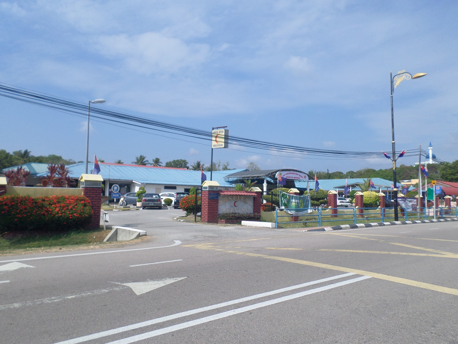 Mersing Hospital, Mersing, Johor, Malaysia